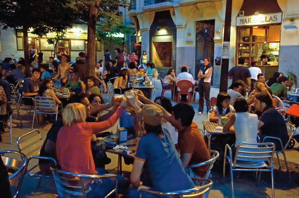 Plaza del 2 de Mayo This photograph can be used for publications, including this copyright statement: “©PromoMadrid, author Max Alexander”. Esta fotografía puede usarse en publicaciones, incluyendo la declaración “©PromoMadrid, autor Max Alexander”.